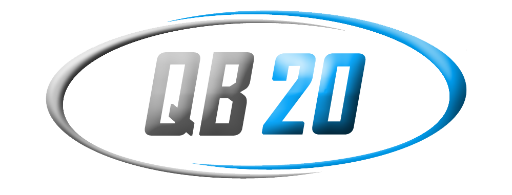 QB20 Logo